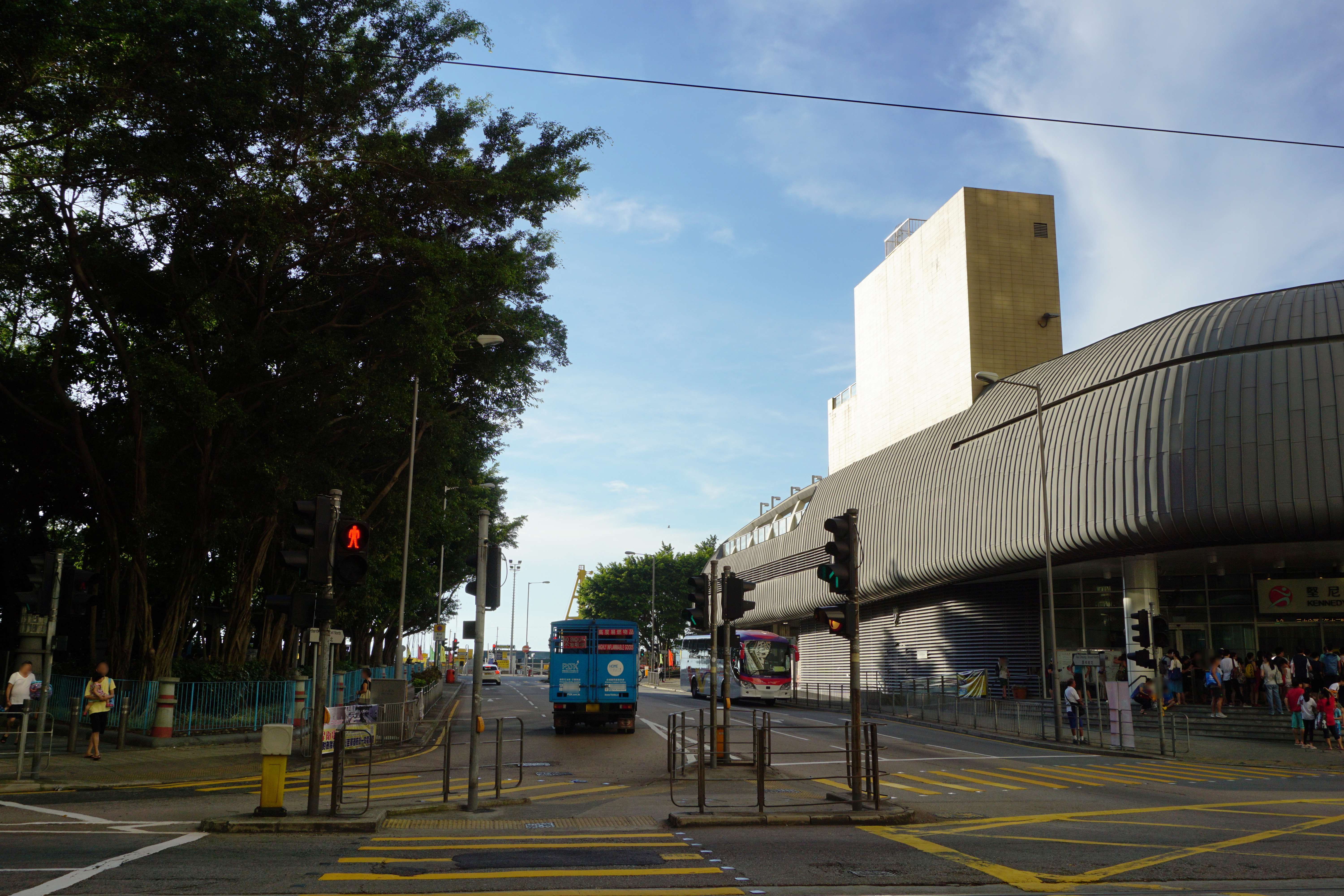 Sai Cheung Street North in Shek Tong Tsui, Hong Kong.